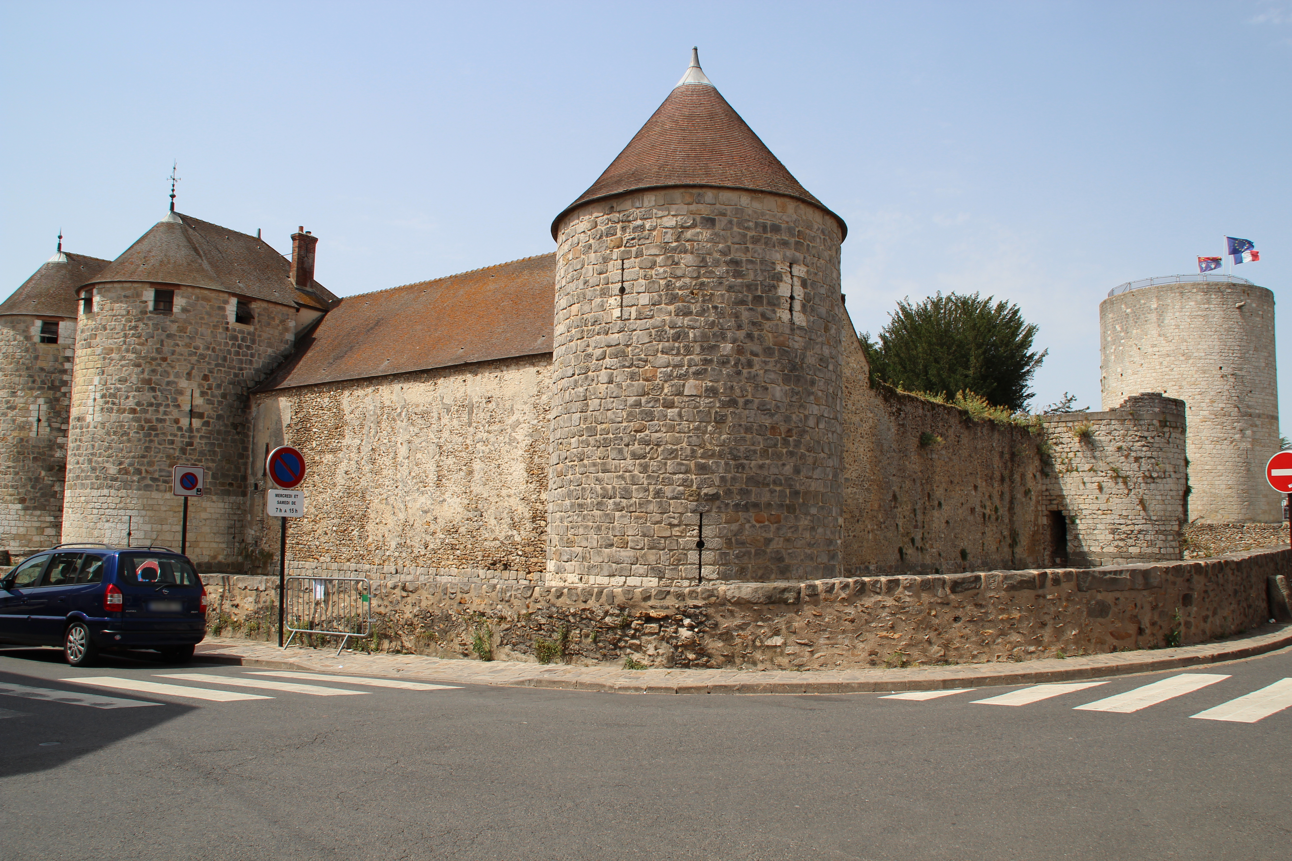 Castle of Dourdan, France